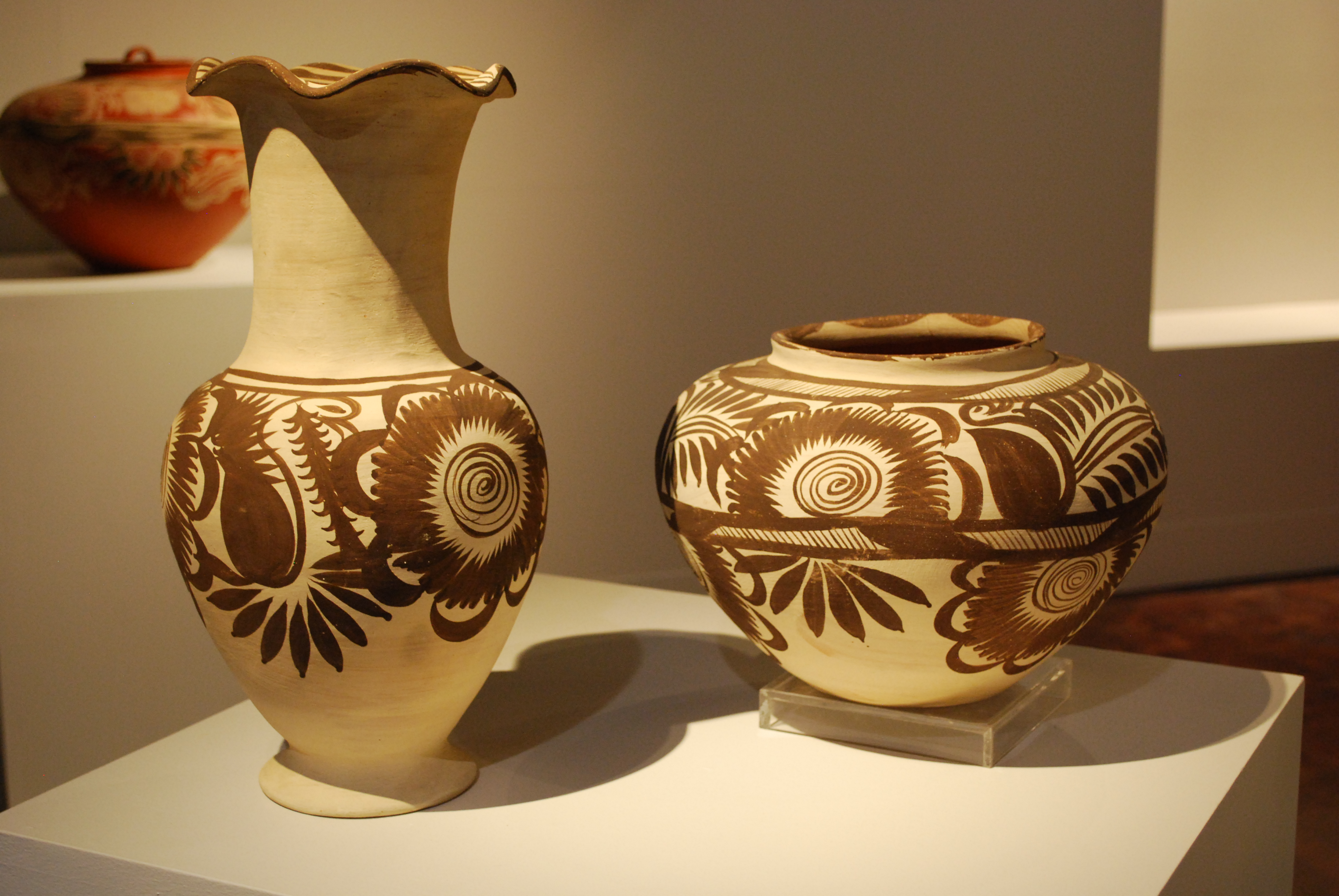 Ceramics by Nicolas Vita Hernandez of Chililco, Huejutla at a temporary exhibit on Hidalgo crafts at the Museo de Arte Popular, Mexico City